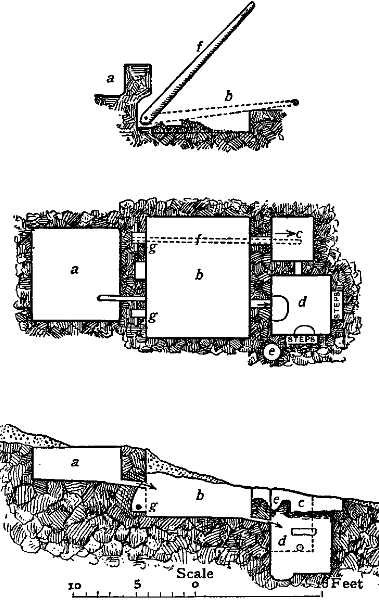 An illustration from the Encyclopaedia Biblica, a 1903 publication which is now in the public domain. Fig. 1 for article "Wine". Plan and sections of an ancient wine press found in Palestine.